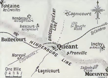 Map Bullecourt, late 1917